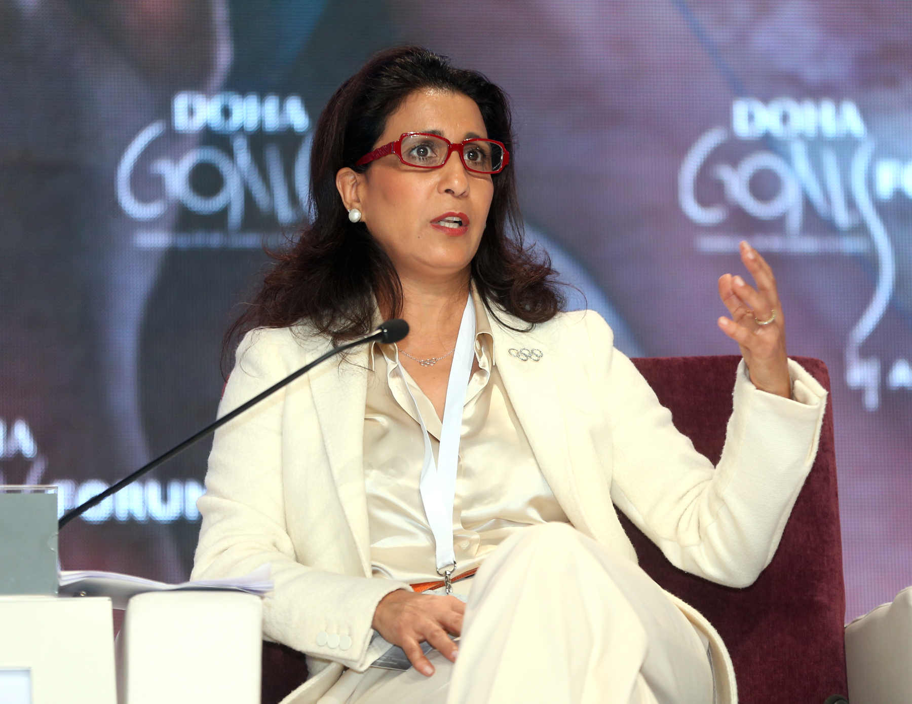 Moroccan former runner Nawal El Moutawakel speaks during the Doha Goals Forum. Picture by Mohan